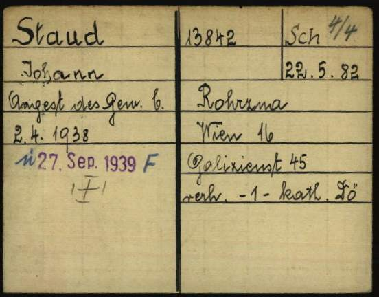 Registration card of Johann Staud as a prisoner at Dachau Nazi Concentration Camp. Purple stamped date on the left side is the date of Staud's transfer to Flossenbürg (F) Concentration Camp. Penciled cross indicates Staud died.